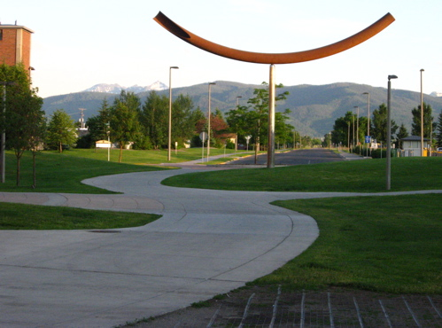 On the campus of Montana State University-Bozeman. Shown is the public sculture "Wind Arc" by the artist Gary Bates. The sculpture is affectionately known as "the Noodle."